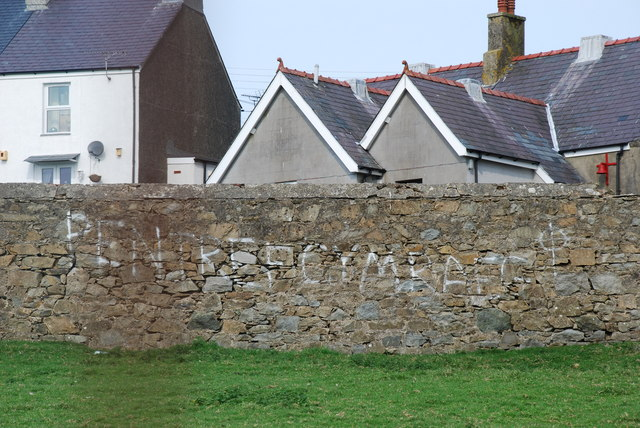 Croeso i Lithfaen! - Welcome to Llithfaen! A warning on the wall approaching Llithfaen from the South-East that this is "A Welsh-speaking village"